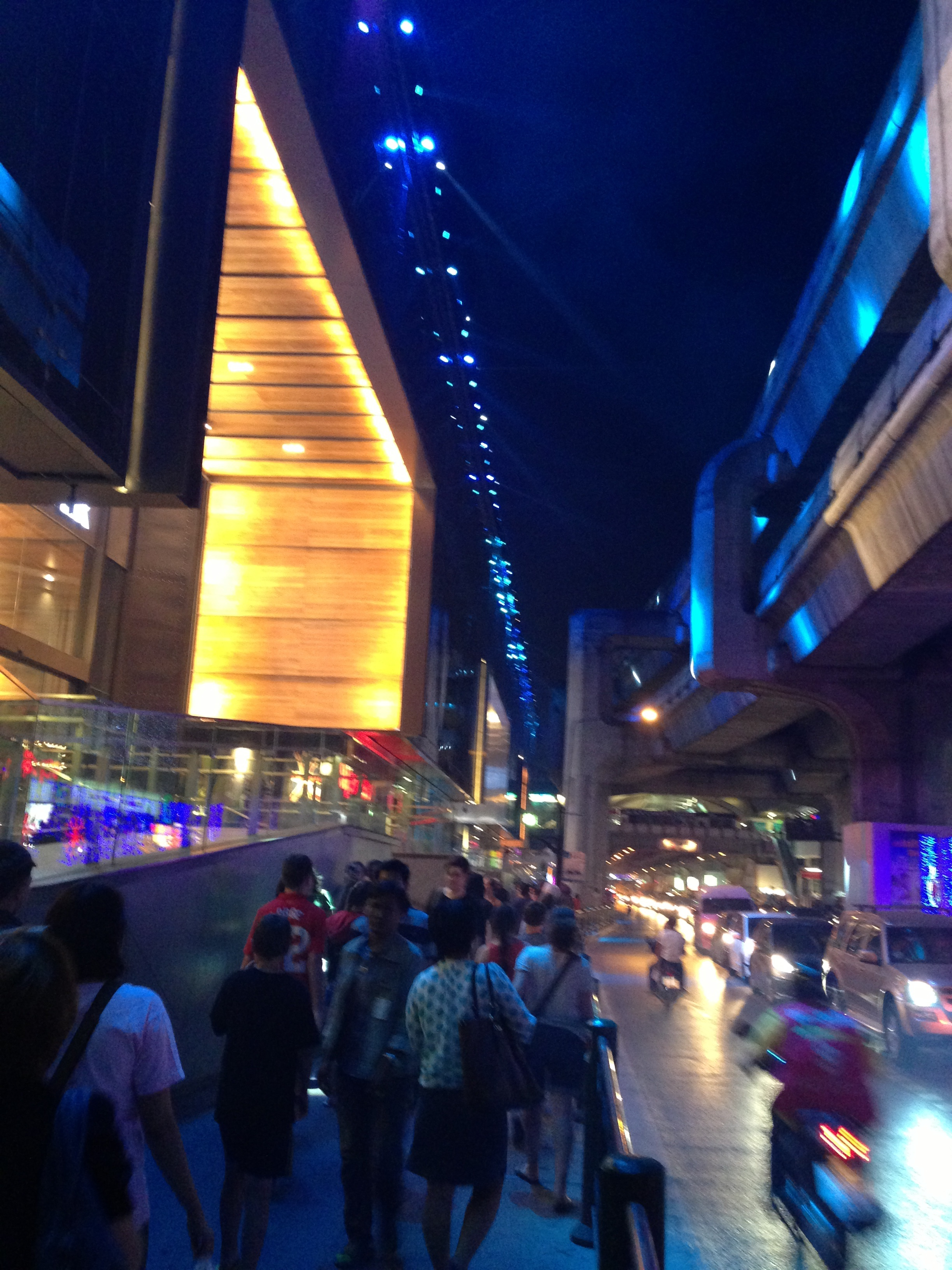 Rama I road (Siam Center)